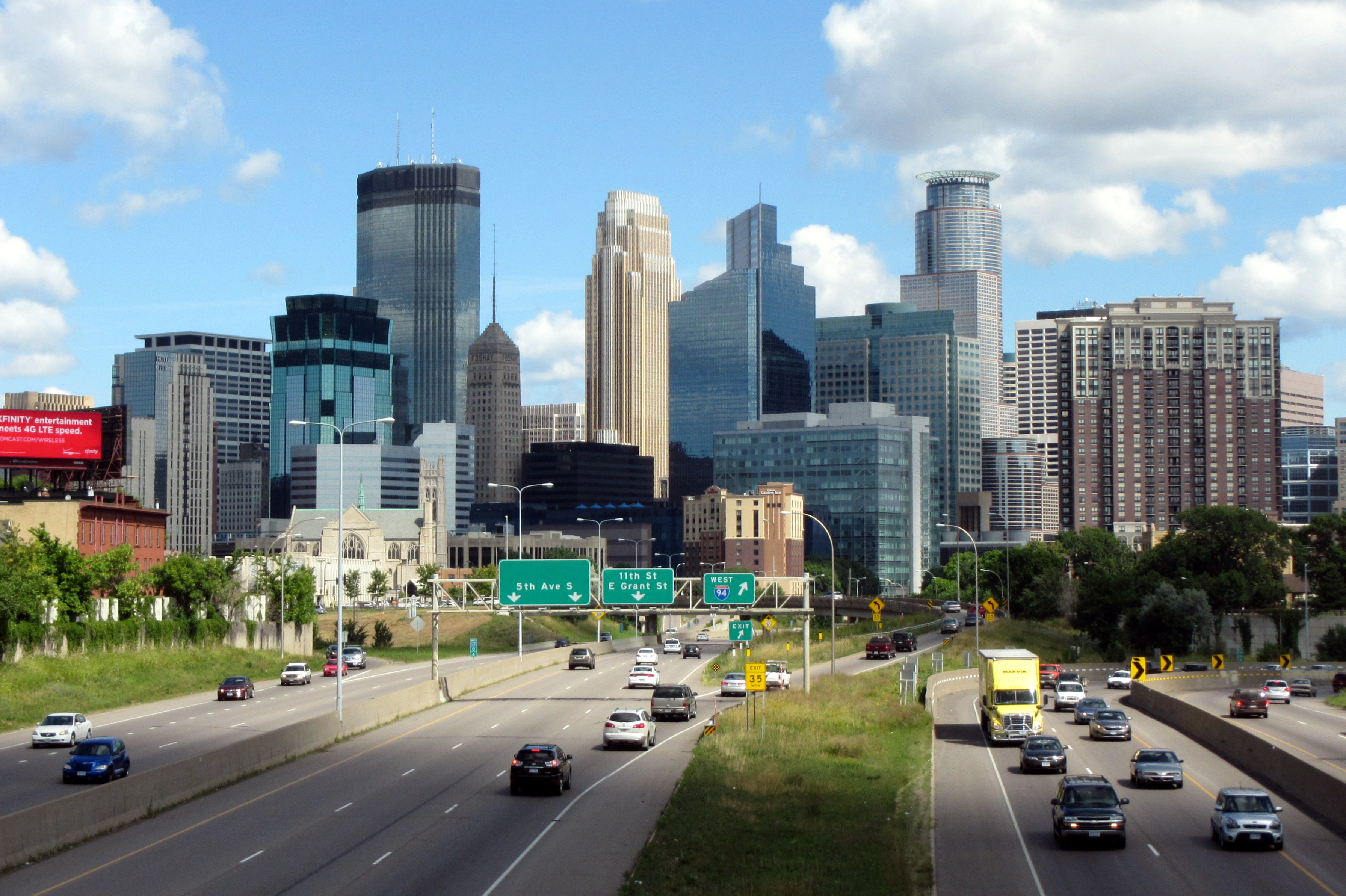 Minneapolis Skyline from Franklin Avenue Bridge